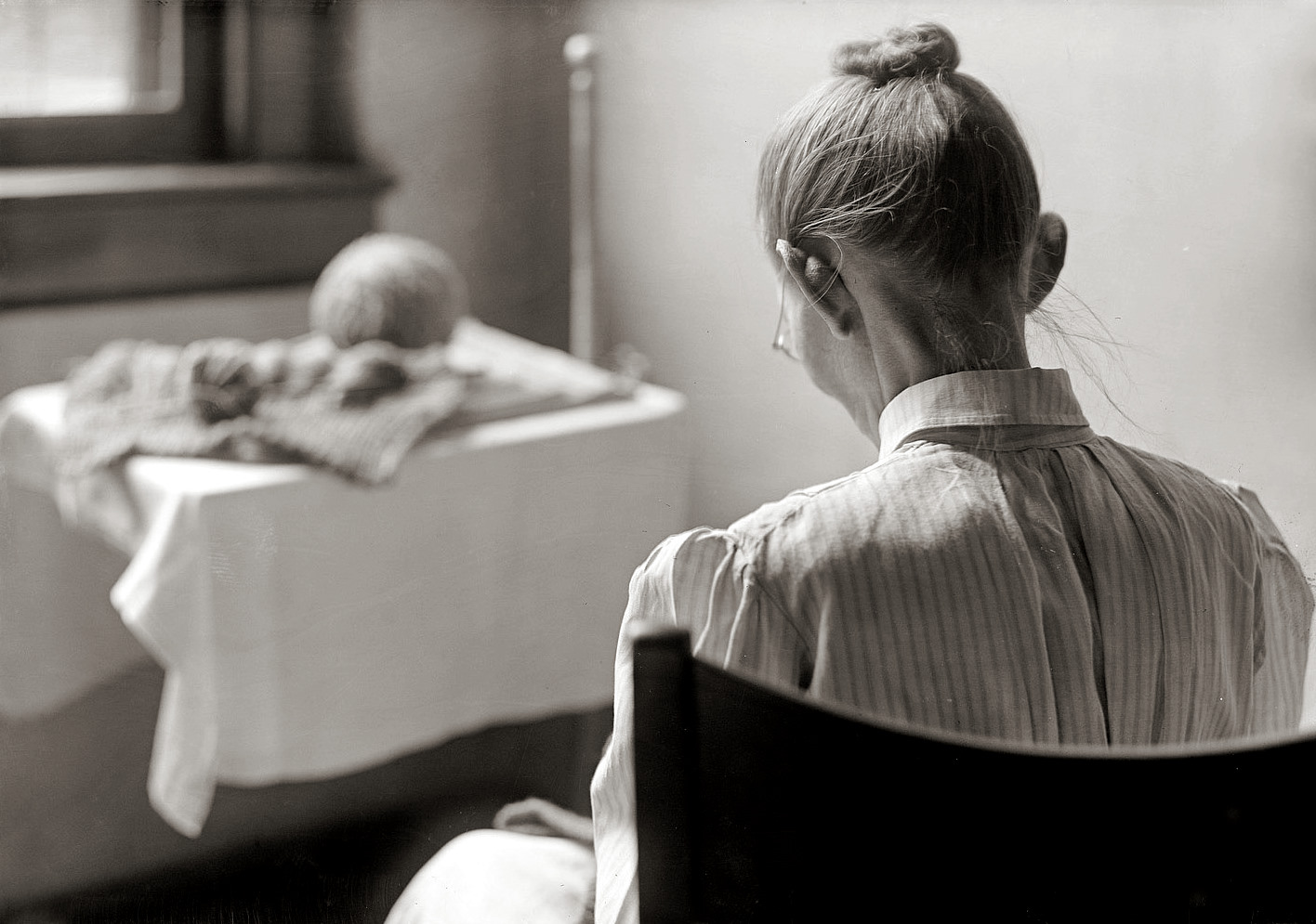 An elderly patient at St. Elizabeths Hospital in Washington, D.C.